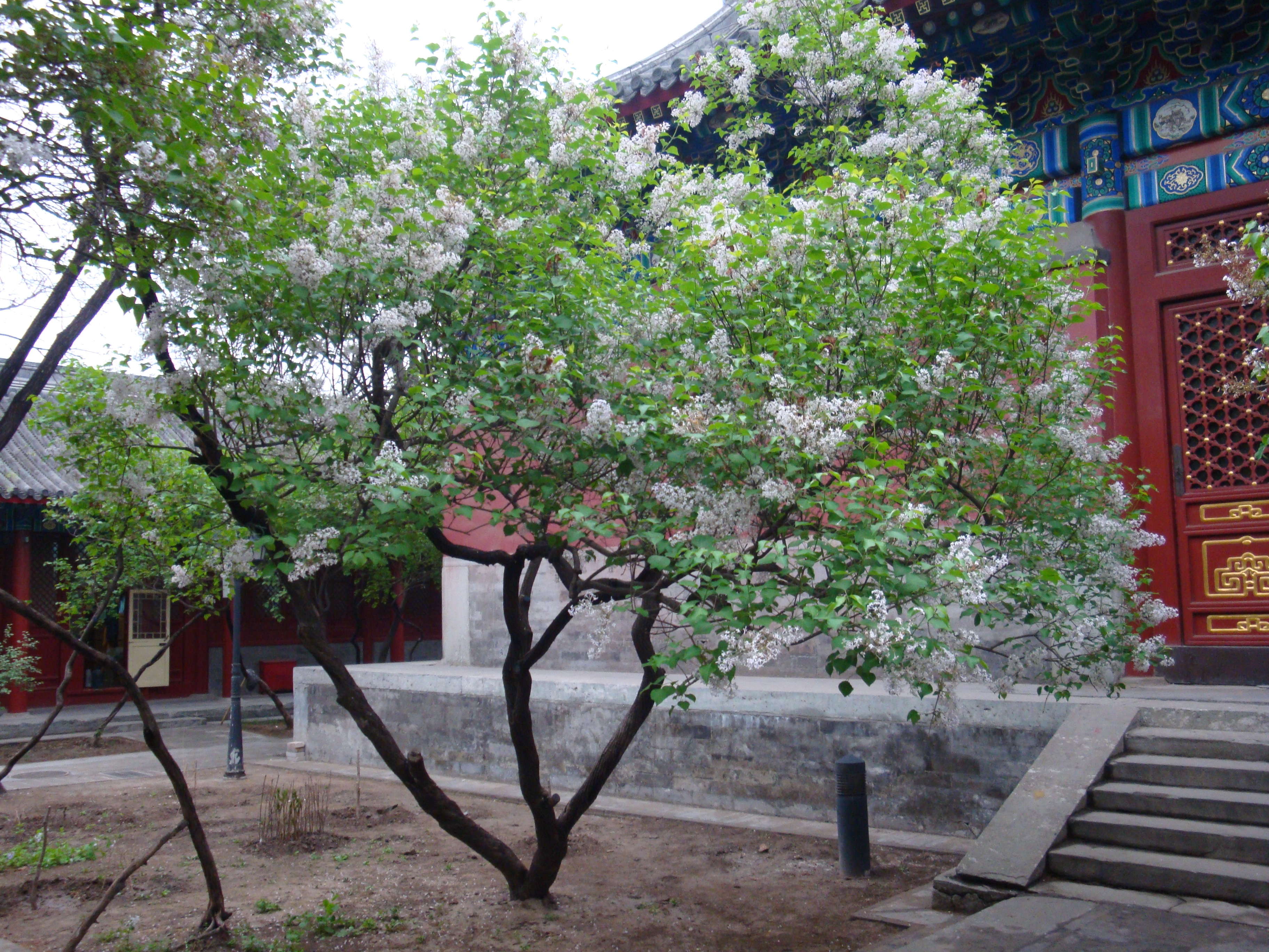 lilac in Fayuan Temple, Beijing